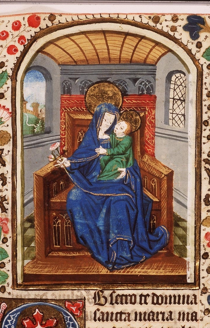 Madonna: Mary enthroned, holding the Christ-child Shelfmark: 76 F 18 Fol. 16r: miniature Image uploaded on 02-10-2013 from the Flickr stream of the Royal Library, The Hague (Koninklijke Bibliotheek, KB, national library of the Netherlands)